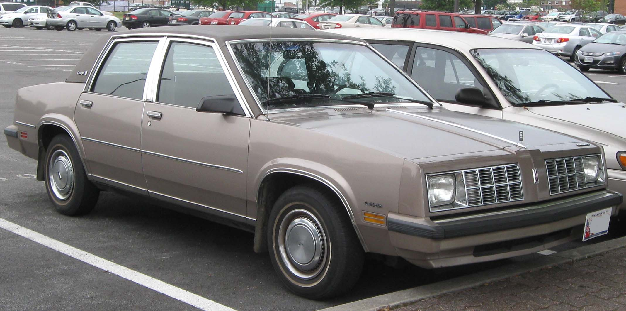 Oldsmobile Omega (X-car) photographed in College Park, Maryland, USA.